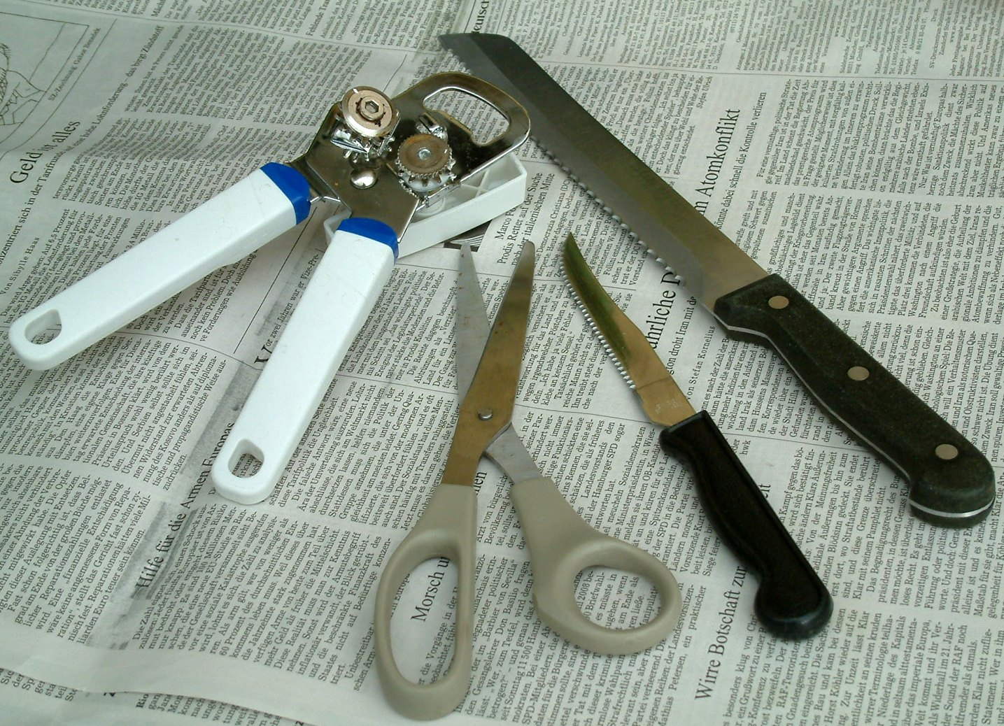 left handed tools: tin-opener, scissors, knifes.